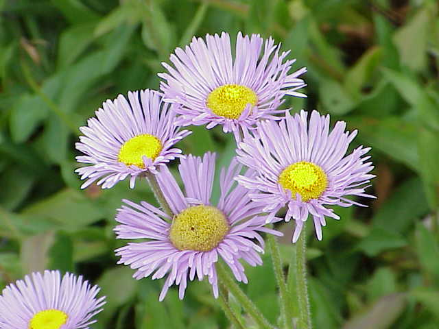 Species: Erigeron glabellus Family: Asteraceae Image No. 1